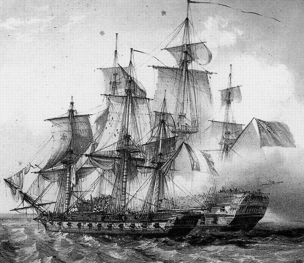 Capture of the East Indiaman Lord Nelson by the French privateer Bellone, under Jacques François Perroud, on 14 August 1803